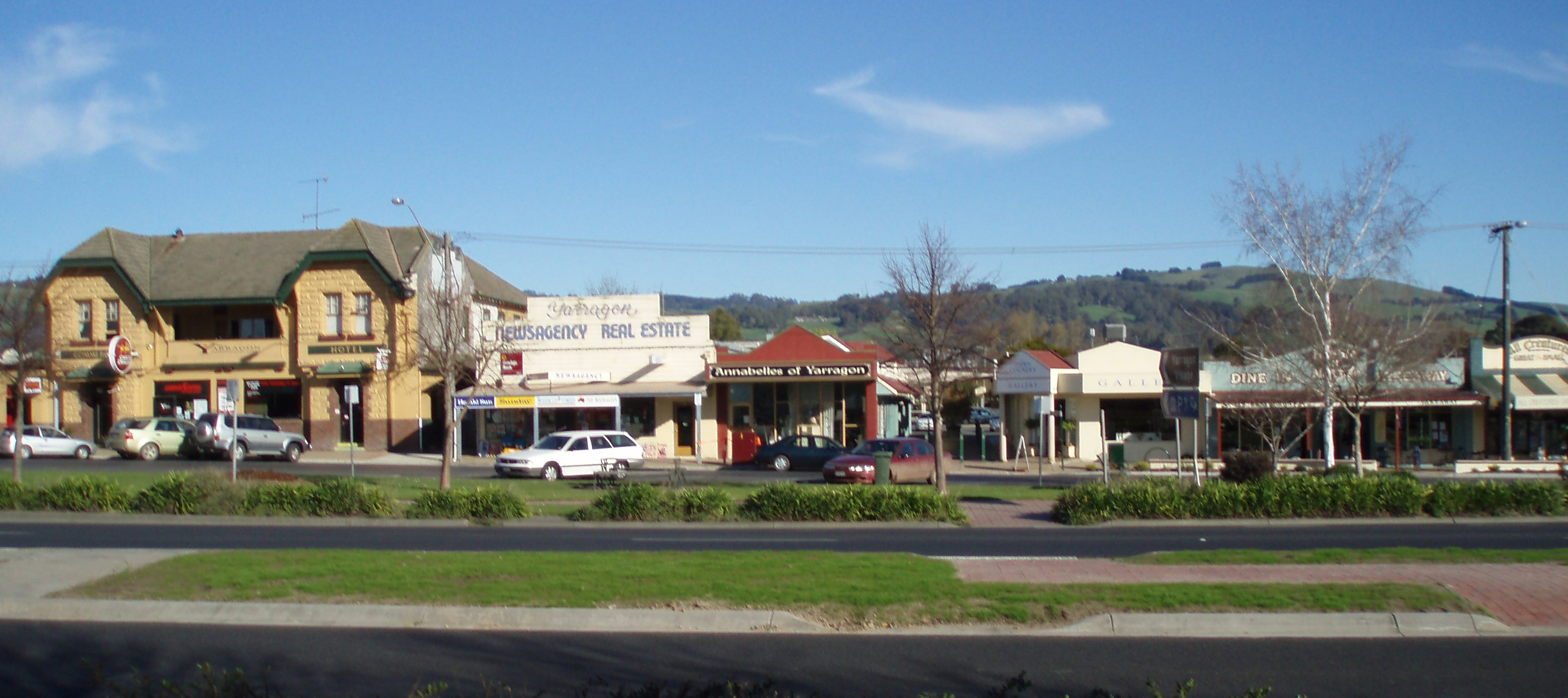 Part of streetscape of Yarragon, Victoria, looking south towards the Strzelecki ranges.